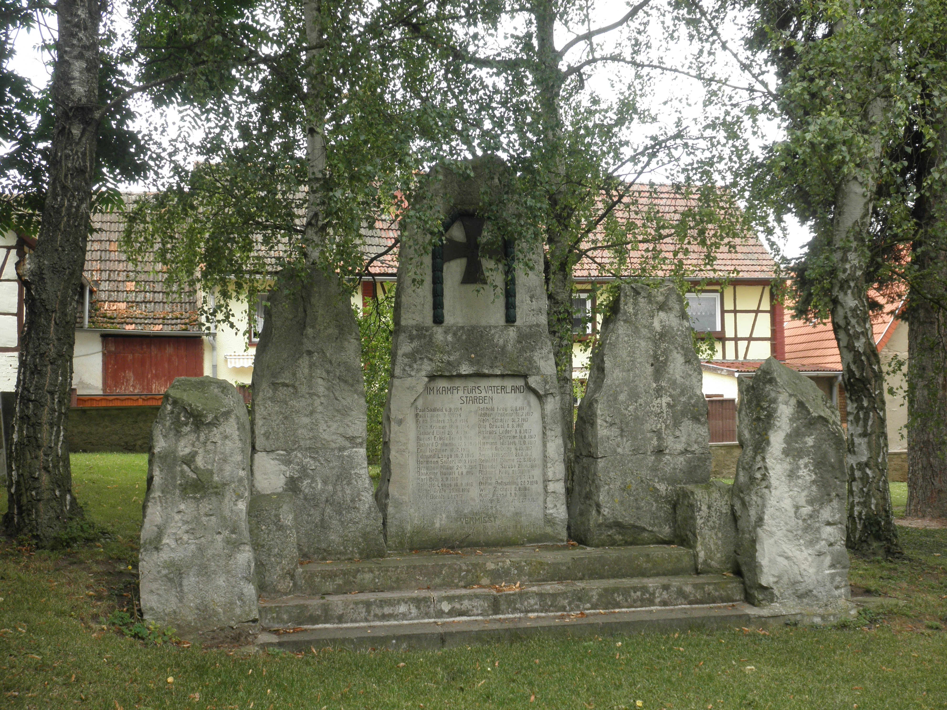 War Memorial in Kutzleben in Thuringia